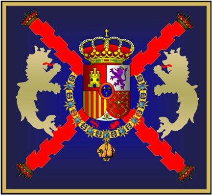 Coat of arms for the Marine company of the Spanish royal guard